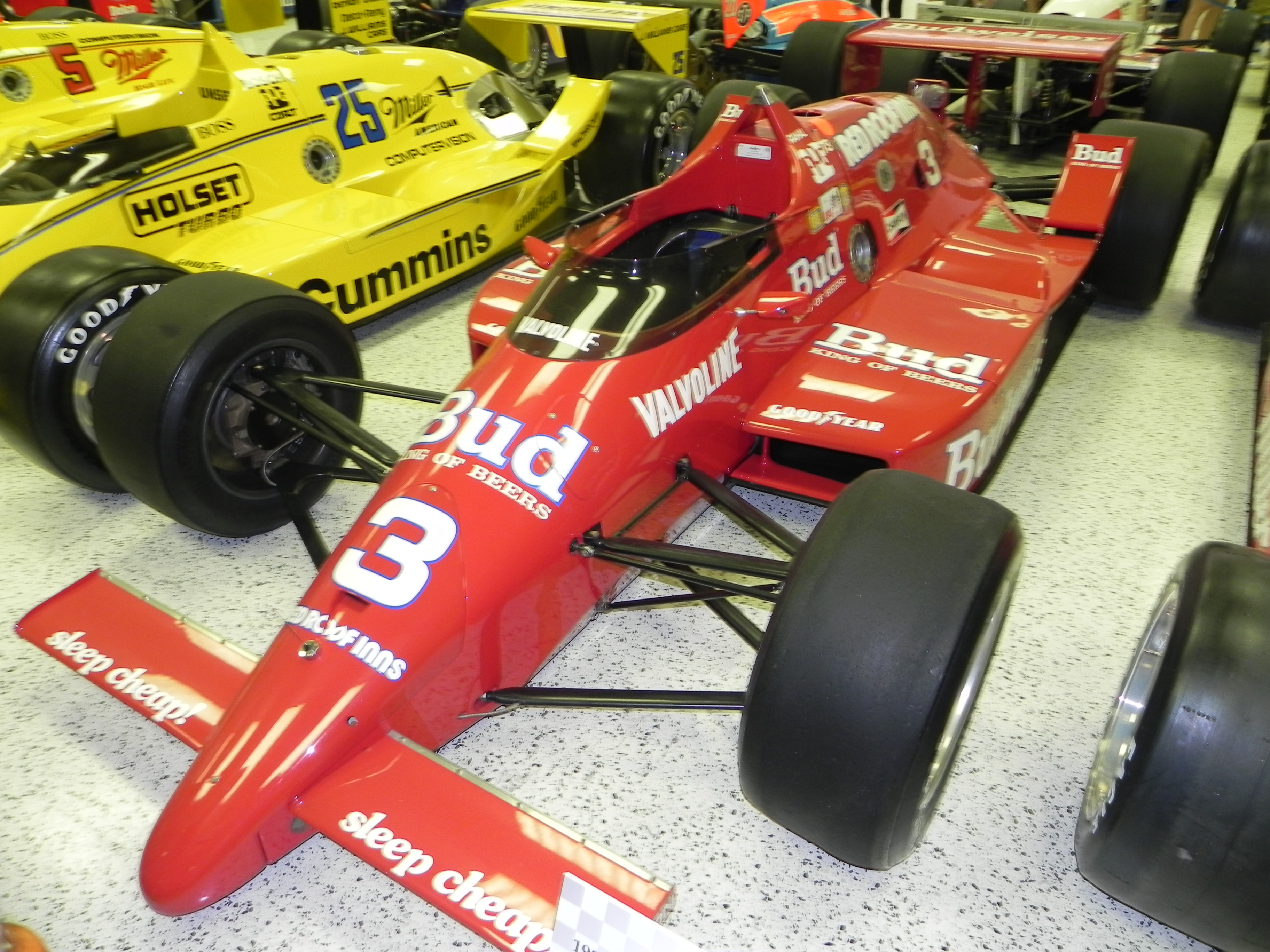 Image of the winning car of the 1986 Indianapolis 500 (Bobby Rahal). Photo was taken at the Indianapolis Motor Speedway Hall of Fame Museum, during the month of May 2011, at the 100th Anniversary "Ultimate Indianapolis 500 Winning Car Collection."